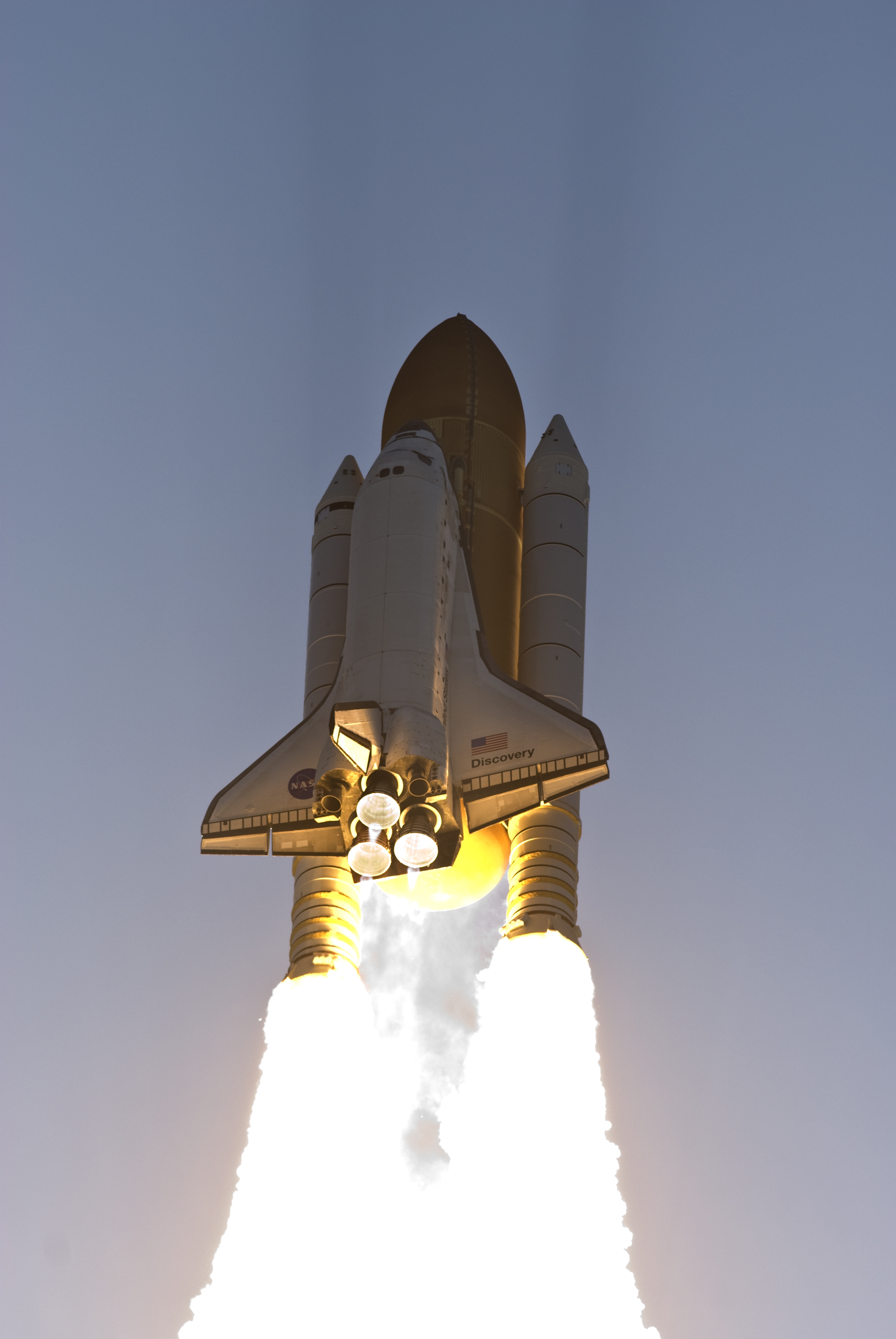 CAPE CANAVERAL, Fla. -- Space shuttle Discovery appears to sit on a wall of fire as it hurtles into space on its STS-124 mission to the International Space Station. Liftoff from Launch Pad 39A at NASA's Kennedy Space Center was on time at 5:02 p.m. EDT. Discovery is making its 35th flight. The STS-124 mission is the 26th in the assembly of the space station. It is the second of three flights launching components to complete the Japan Aerospace Exploration Agency's Kibo laboratory. The shuttle crew will install Kibo's large Japanese Pressurized Module and its remote manipulator system, or RMS. The 14-day flight includes three spacewalks. Photo credit: NASA/Jerry Cannon, George Roberts